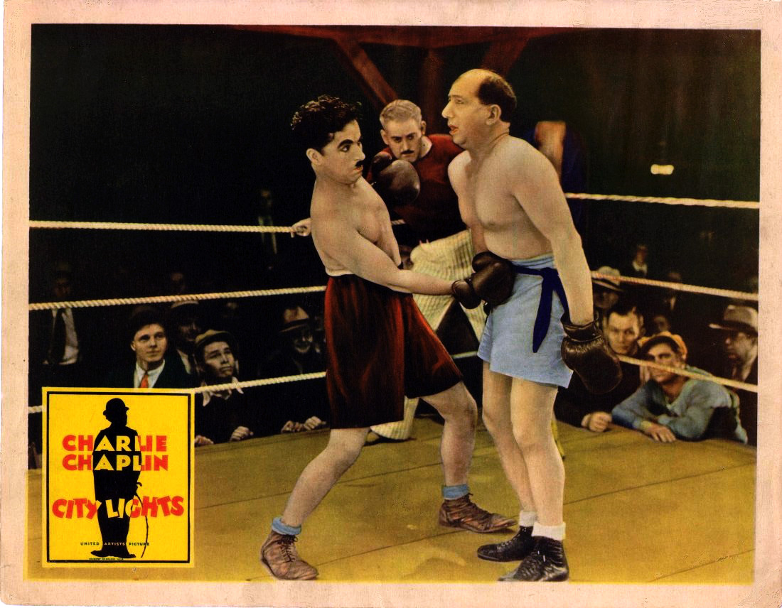 Lobby card from the American romantic comedy film City Lights (1931) with Charlie Chaplin.